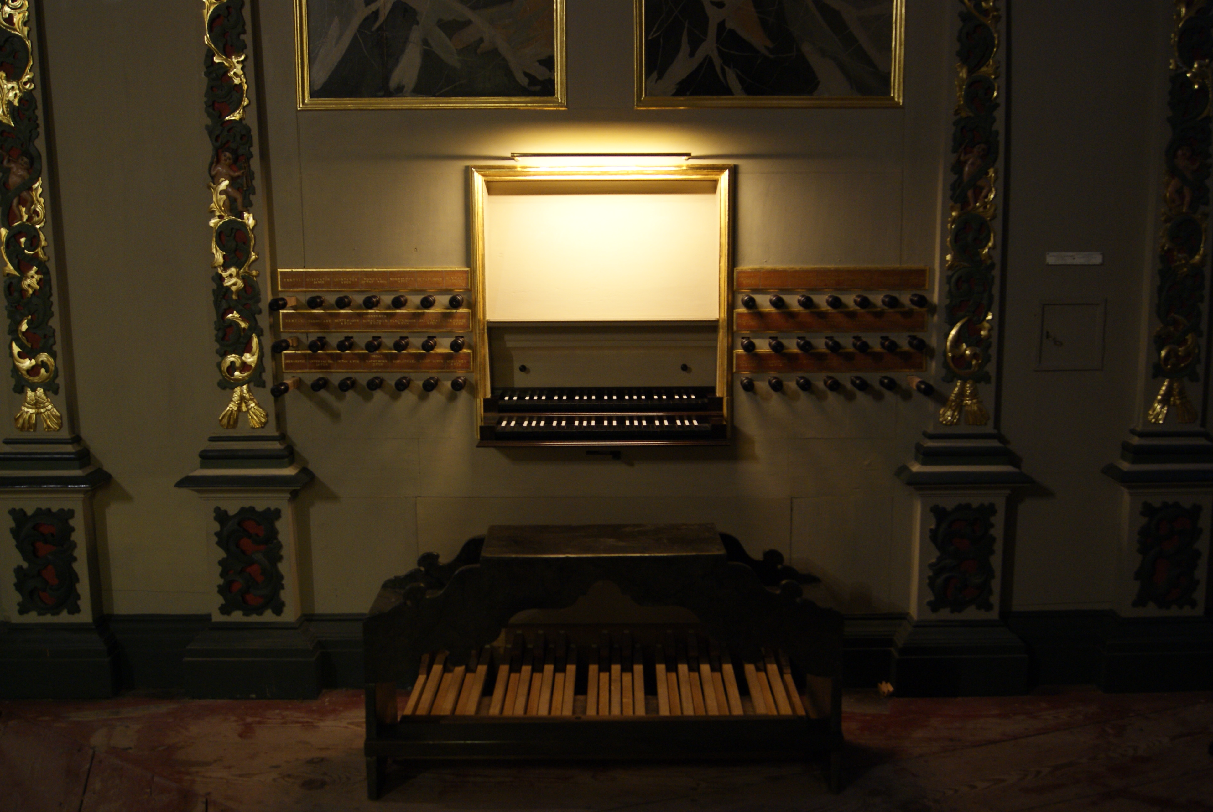 Restored keydesk of the Andreas Hildebrandt organ from 1717-1719 in Pasłęk